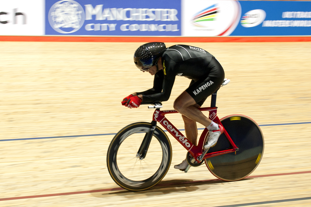 Jim Brander performing the worldhourrecord at the Velodrome in Manchester